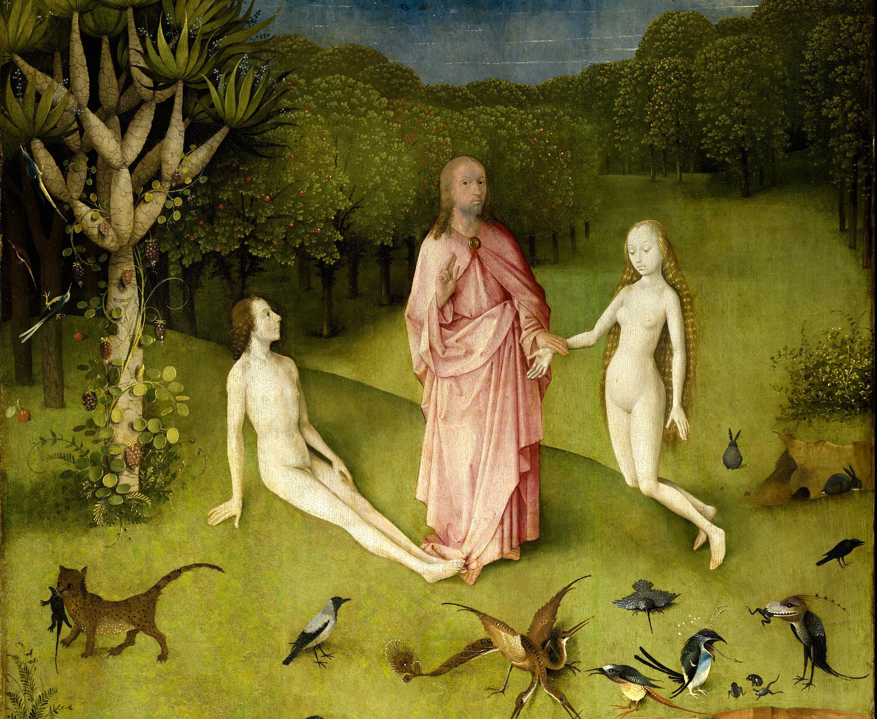 The Garden of Earthly Delights - detail